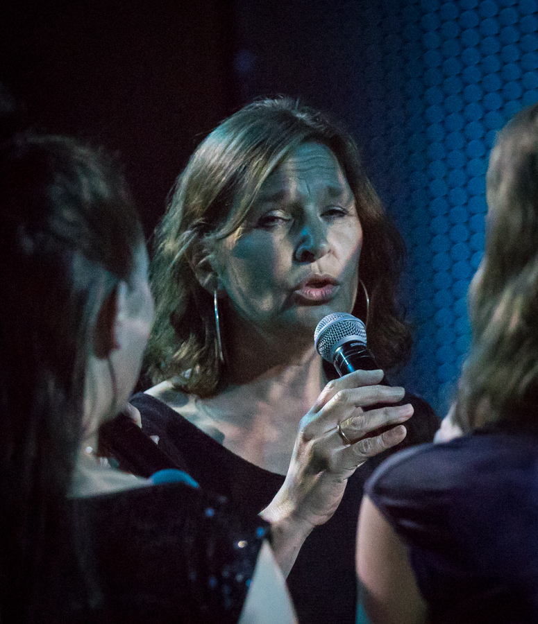 Tone Åse of Trondheim Voices at Sølvsalen. The concert was part of Kongsberg Jazzfestival and took place on 06. July 2017. Lineup: Sissel Vera Pettersen (vocal) Tone Åse (vocal) Heidi Skjerve (vocal) Silje Ræstad Karlsen (vocal) Anita Kaasbøll (vocal) Torunn Sævik (vocal) Mia Marlen Berg (vocal) Live Maria Roggen (vocal)